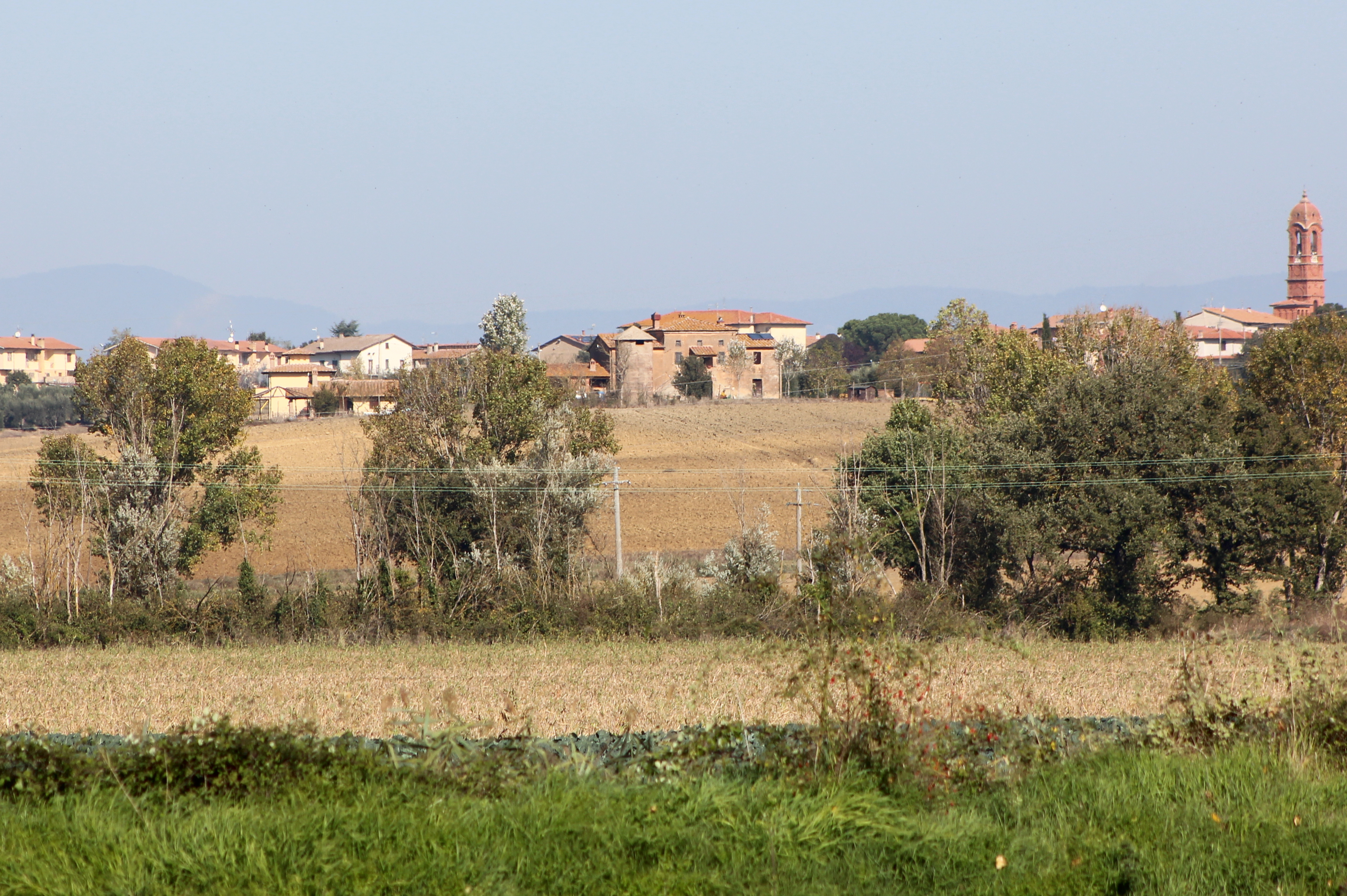 Sanfatucchio, hamlet of Castiglione del Lago, Province of Perugia, Umbria, Italy